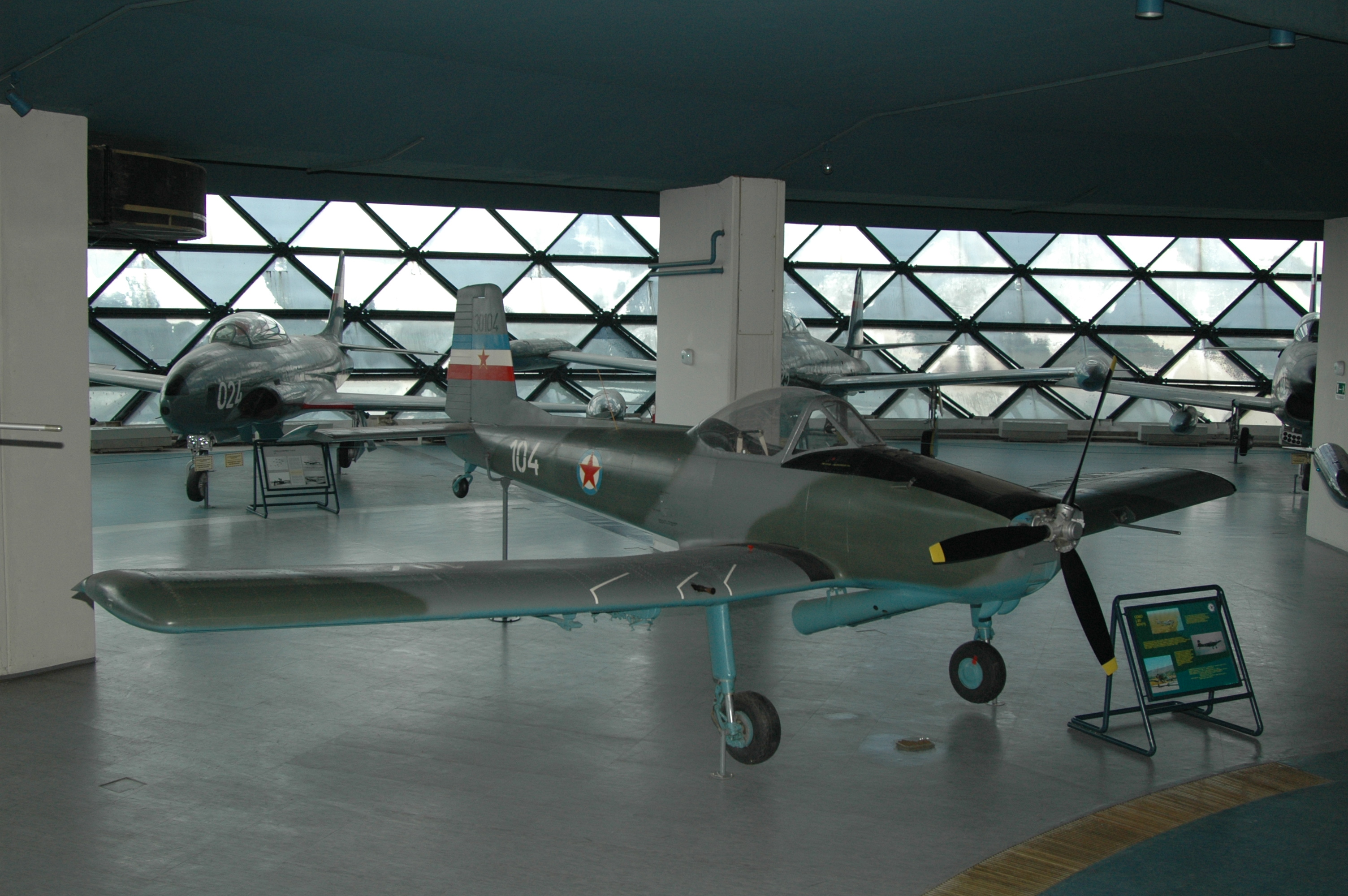 Soko J-20 Kraguj